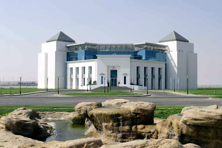 CULTNAT building - Smart Village - Egypt